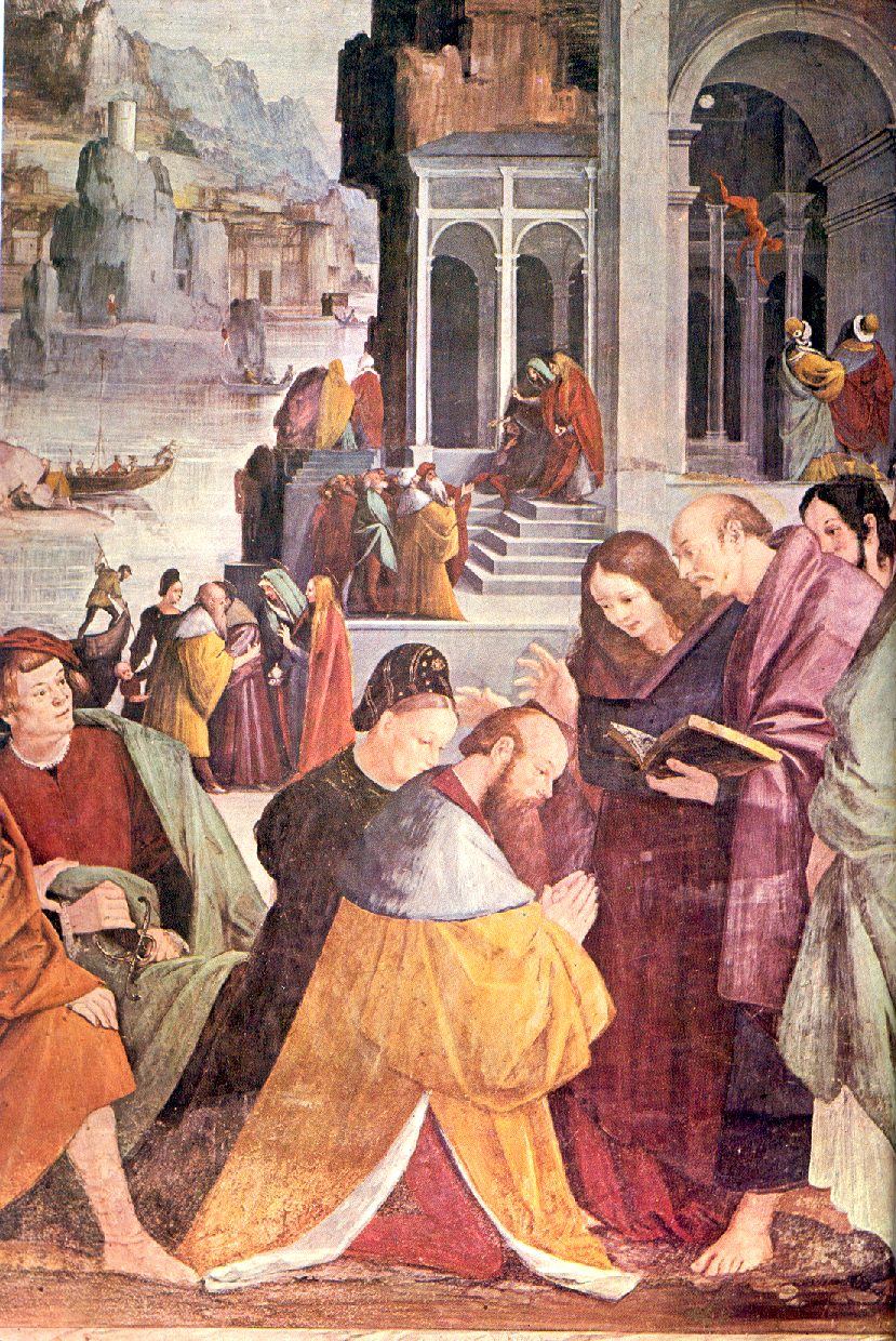 Stories of the Vergindetail